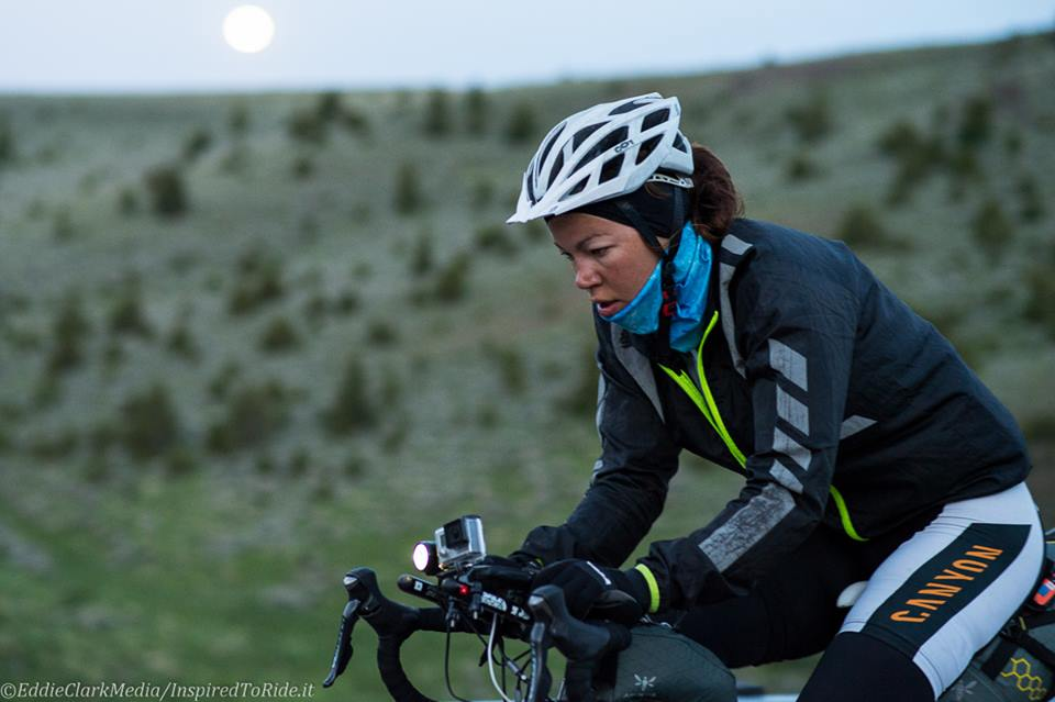 Juliana in Trans Am Bike Race